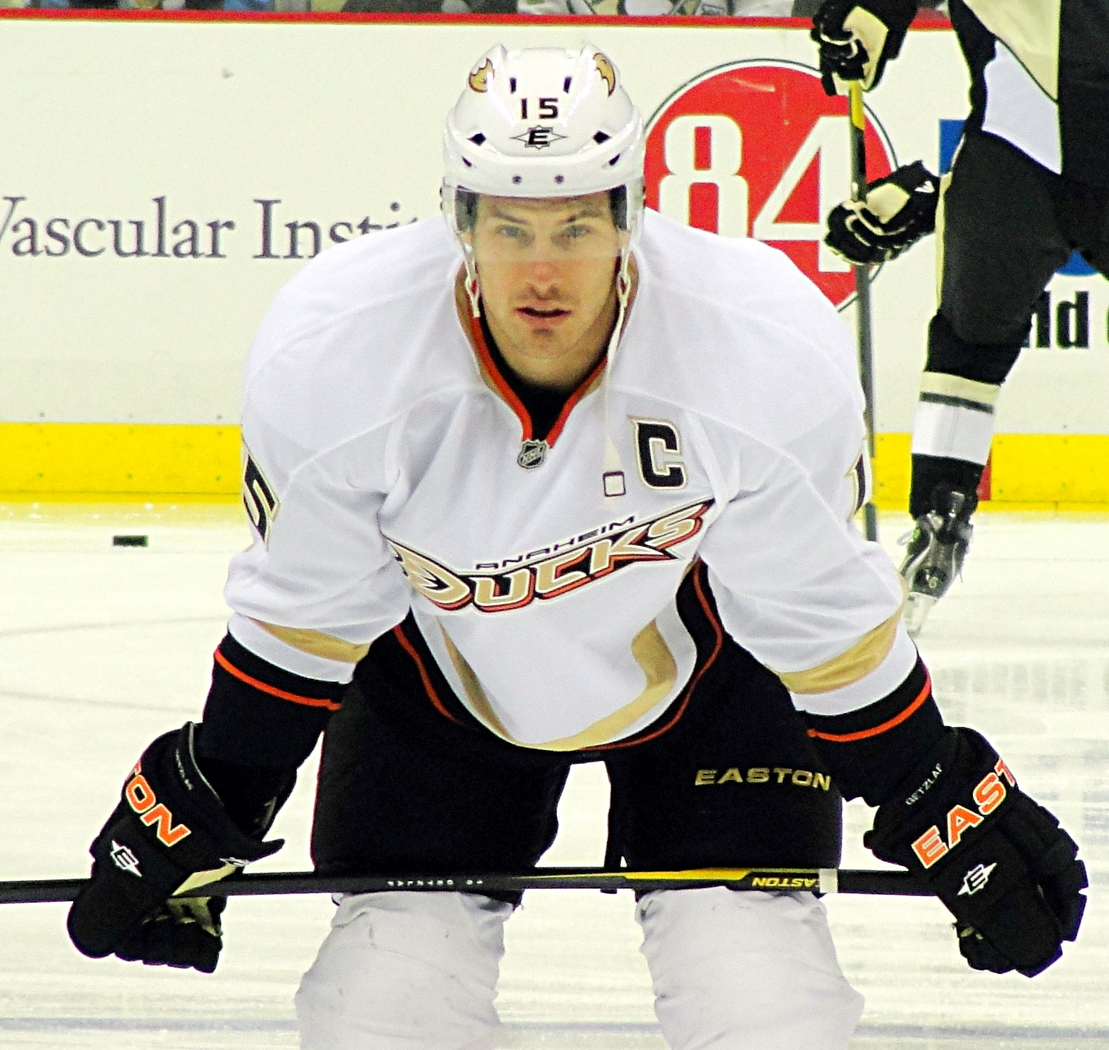 Ryan Getzlaf of the Anaheim Ducks skates against the Pittsburgh Penguins, February 15, 2012 at Consol Energy Center in Pittsburgh, PA.